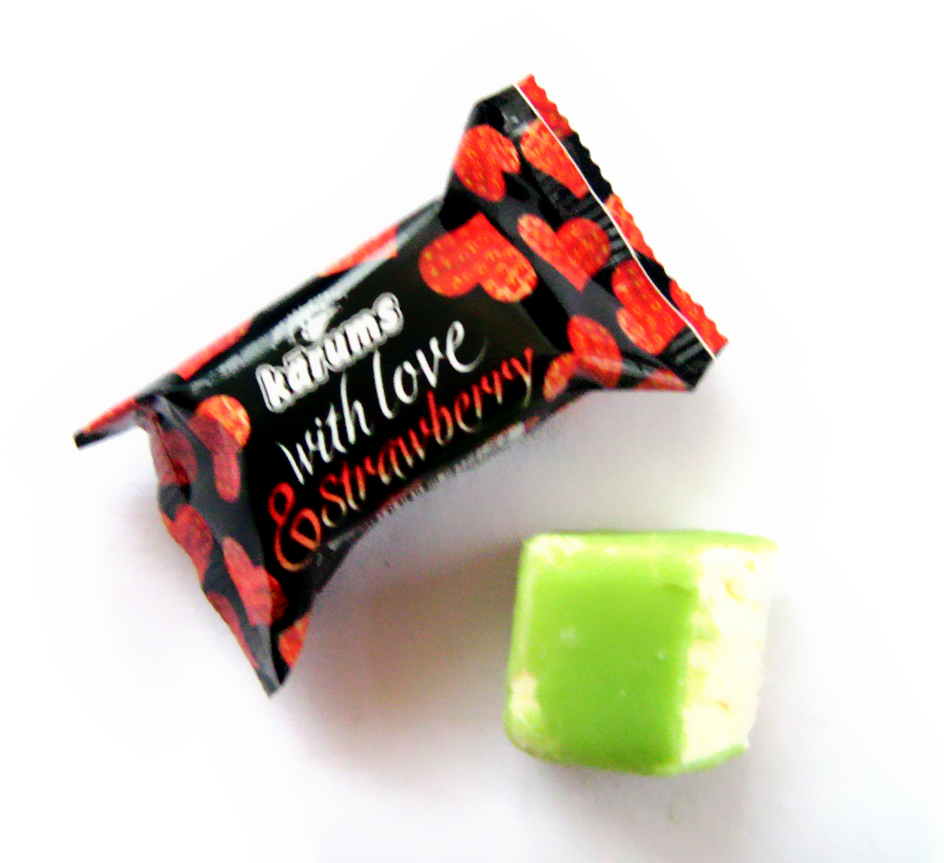 Strawberry and kiwi curd snacks